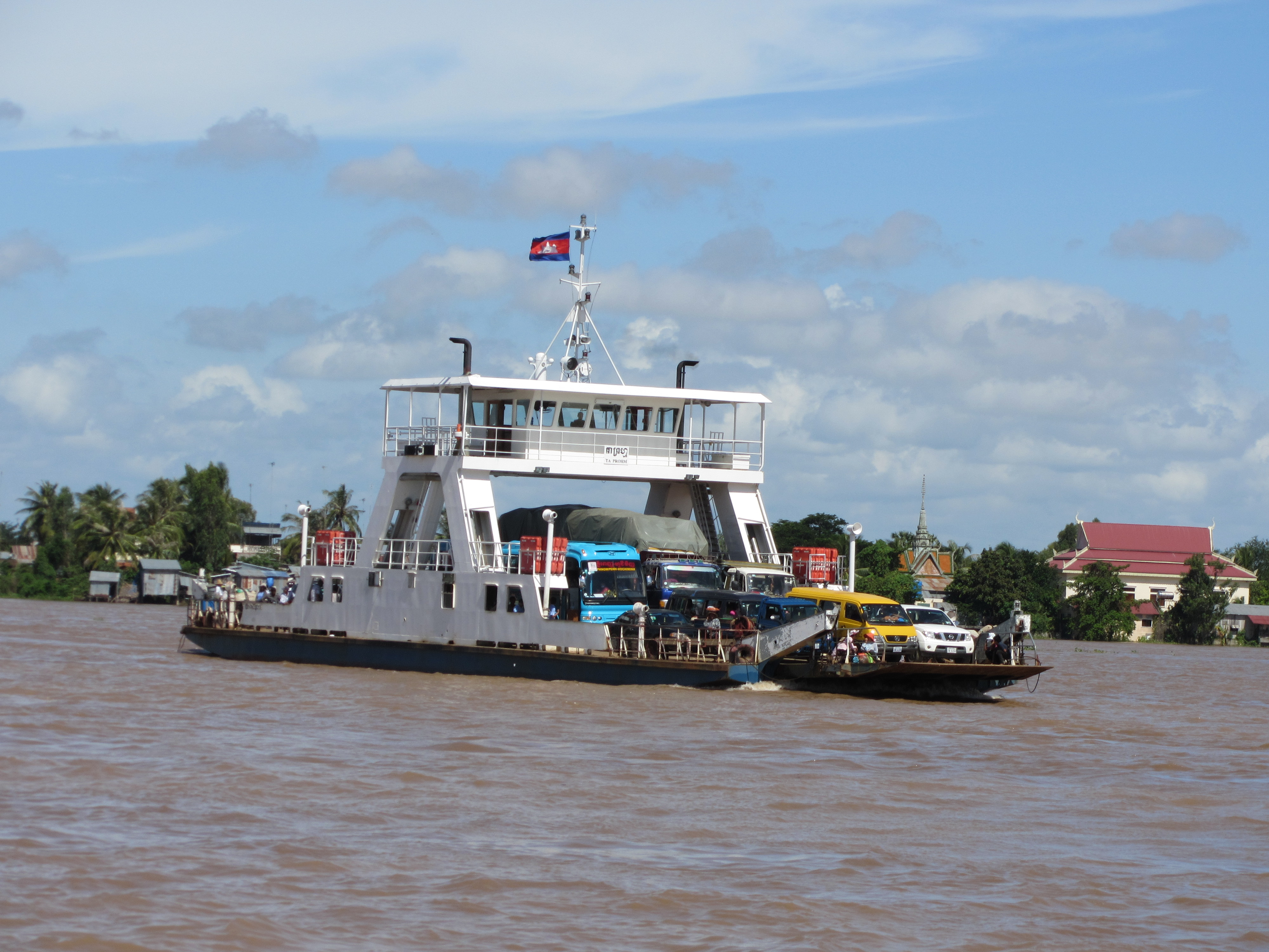 Neak Leung Ferry